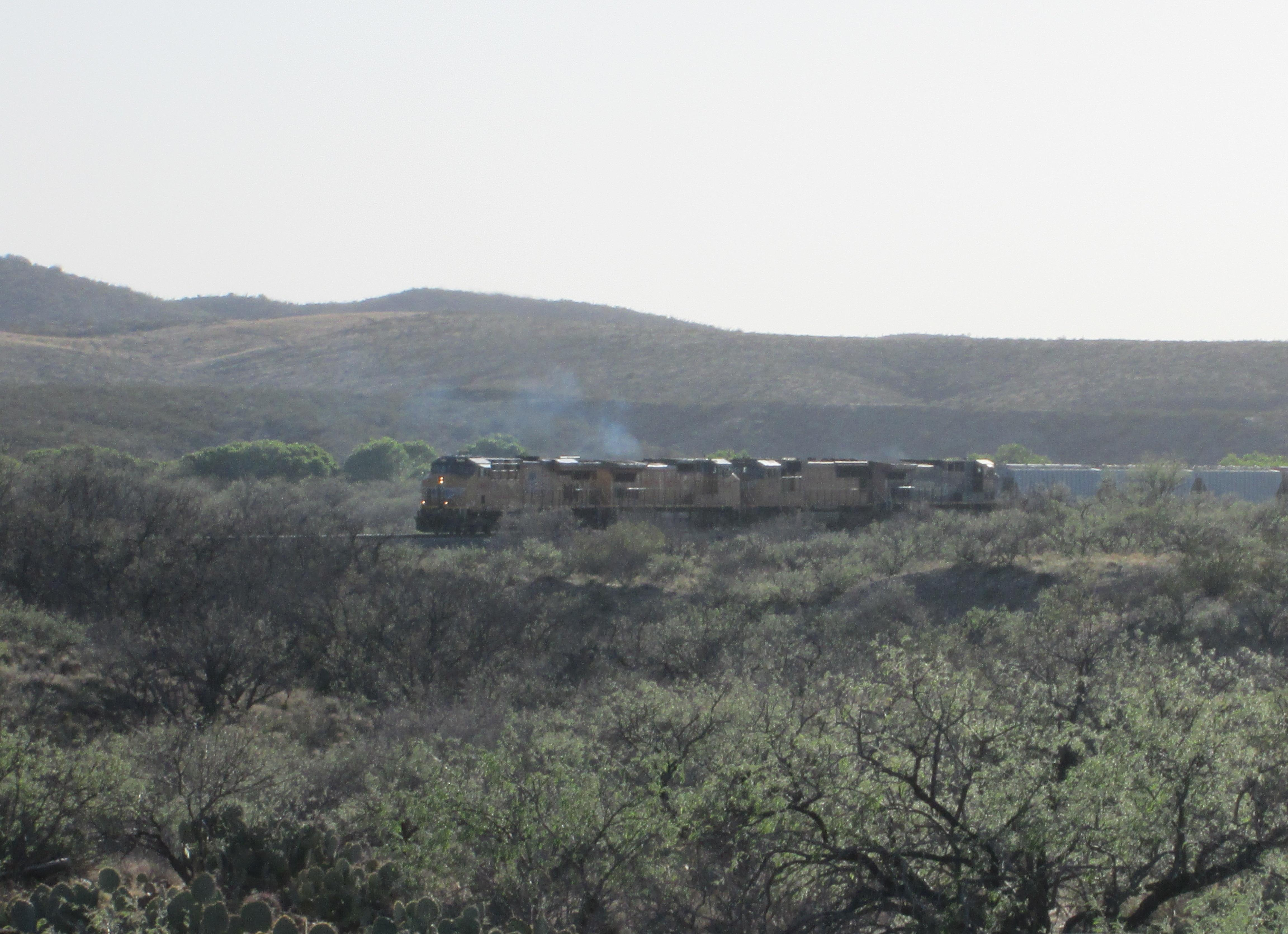 A Union Pacific train heading east along the Cienega Route through the Pantano Townsite Conservation Area in Pima County, Arizona.